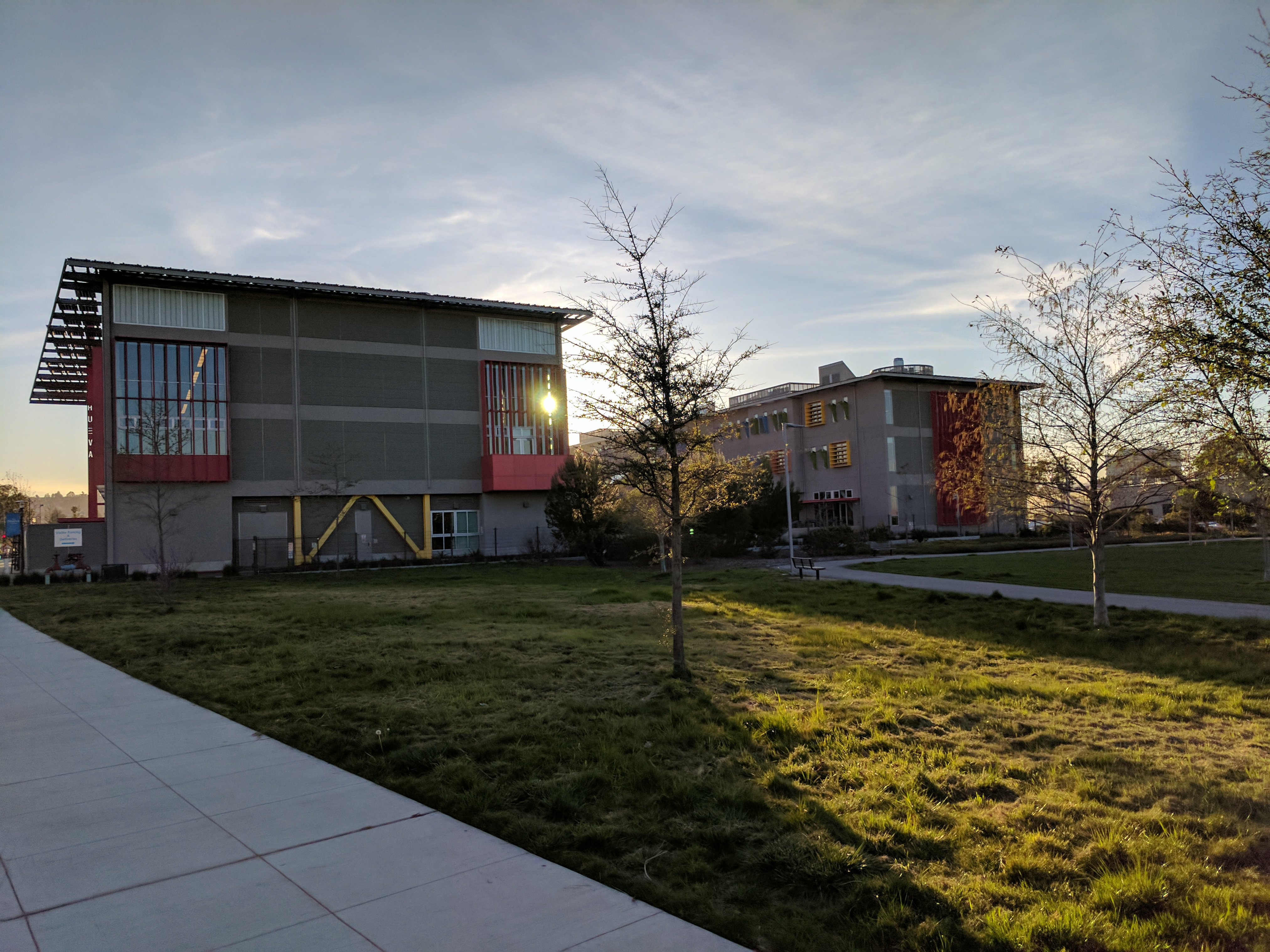 Nueva School Bay Meadows Campus overlooking the Bay Meadows Park.